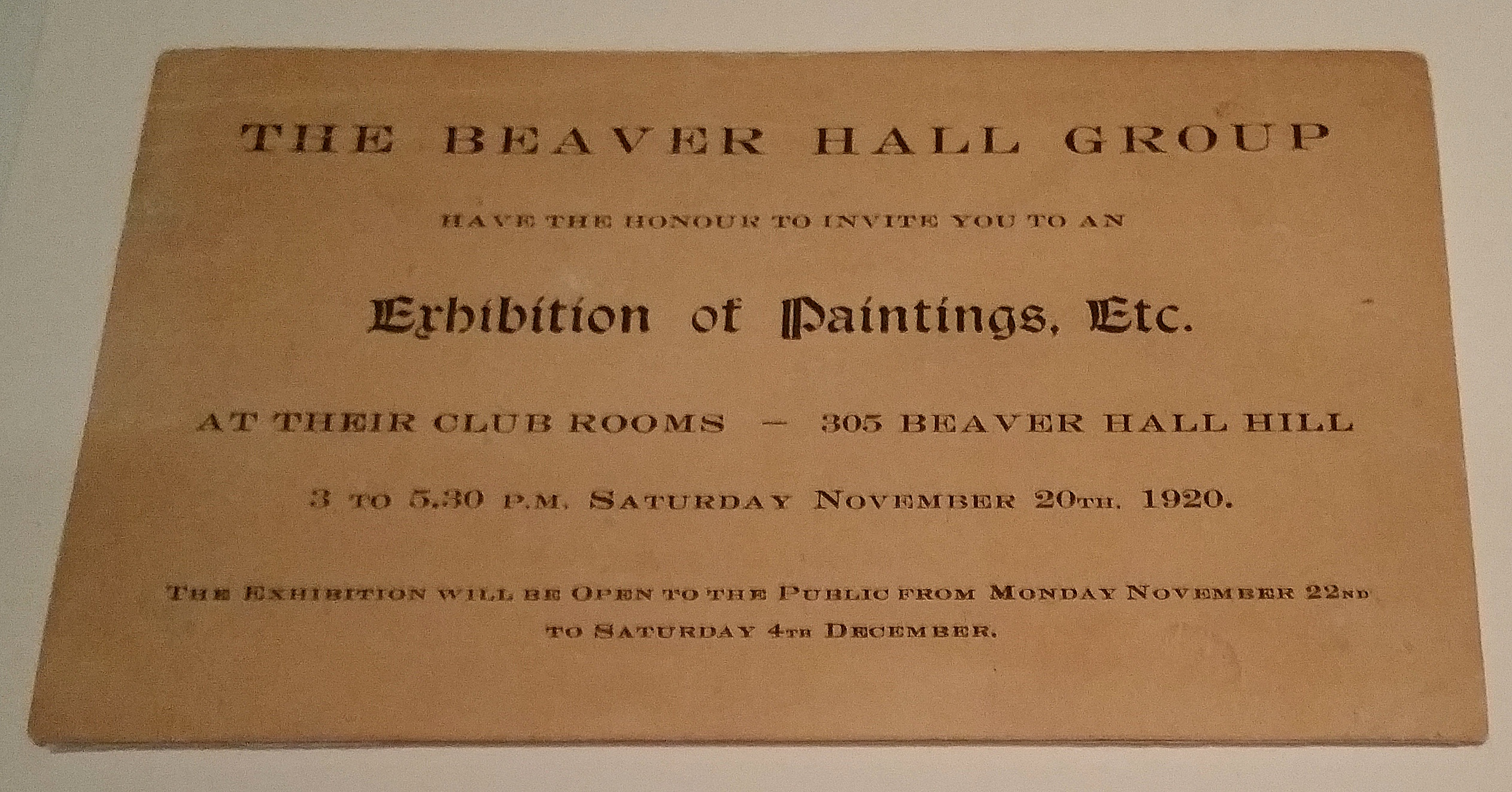 Invitation to the first exposition of the Beaver Hall Group in 1920 at Montréal